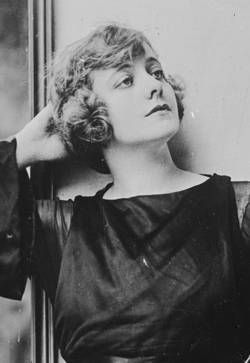 Actress Myrtle Stedman